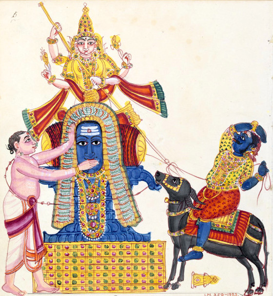 "Shiva rescuing the young Markanda from the noose of Yama, the god of death. To the left the figure of the 16-year old Markandeya is embracing the Lingam in the Shiva temple at Tirukkadavur. From the top of the symbol of life issues the god as the Conqueror of Death (Kalarimurti). , four armed, holding the deer and the drum, and thrusting with his trident at the blue-skinned Yama, mounted on a black bull on the right, who has just thrown his noose over the lingam and the body of Markandeya."